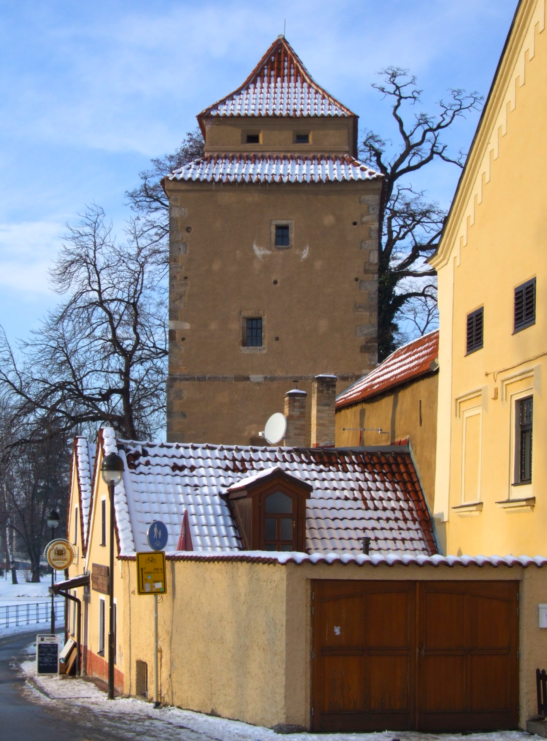 Tower Železná panna (Iron Virgin) and restaurant Staré časy - České Budějovice (Budweis), Czech Republic